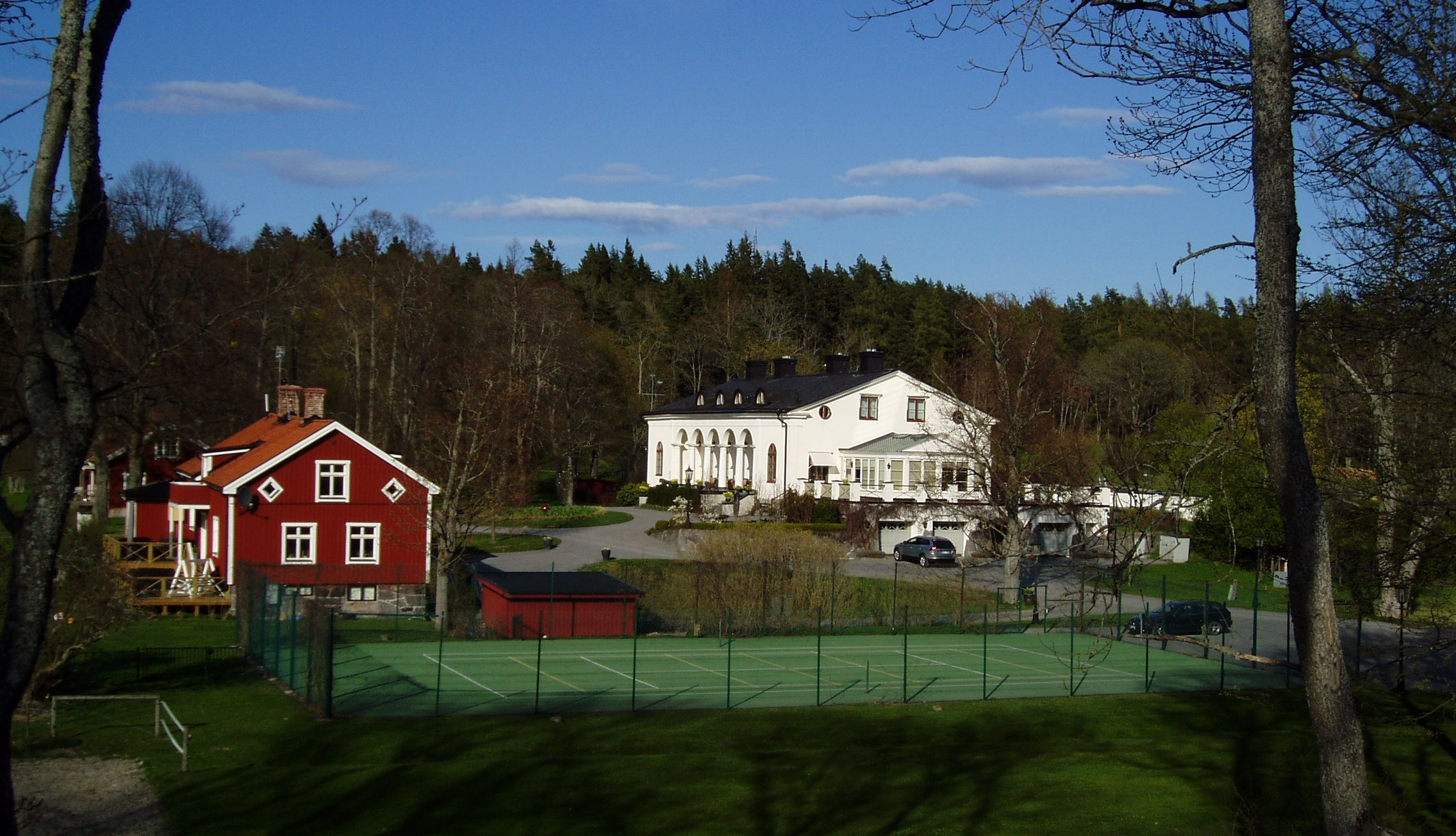 Norrnäs mansion, Värmdö, Sweden